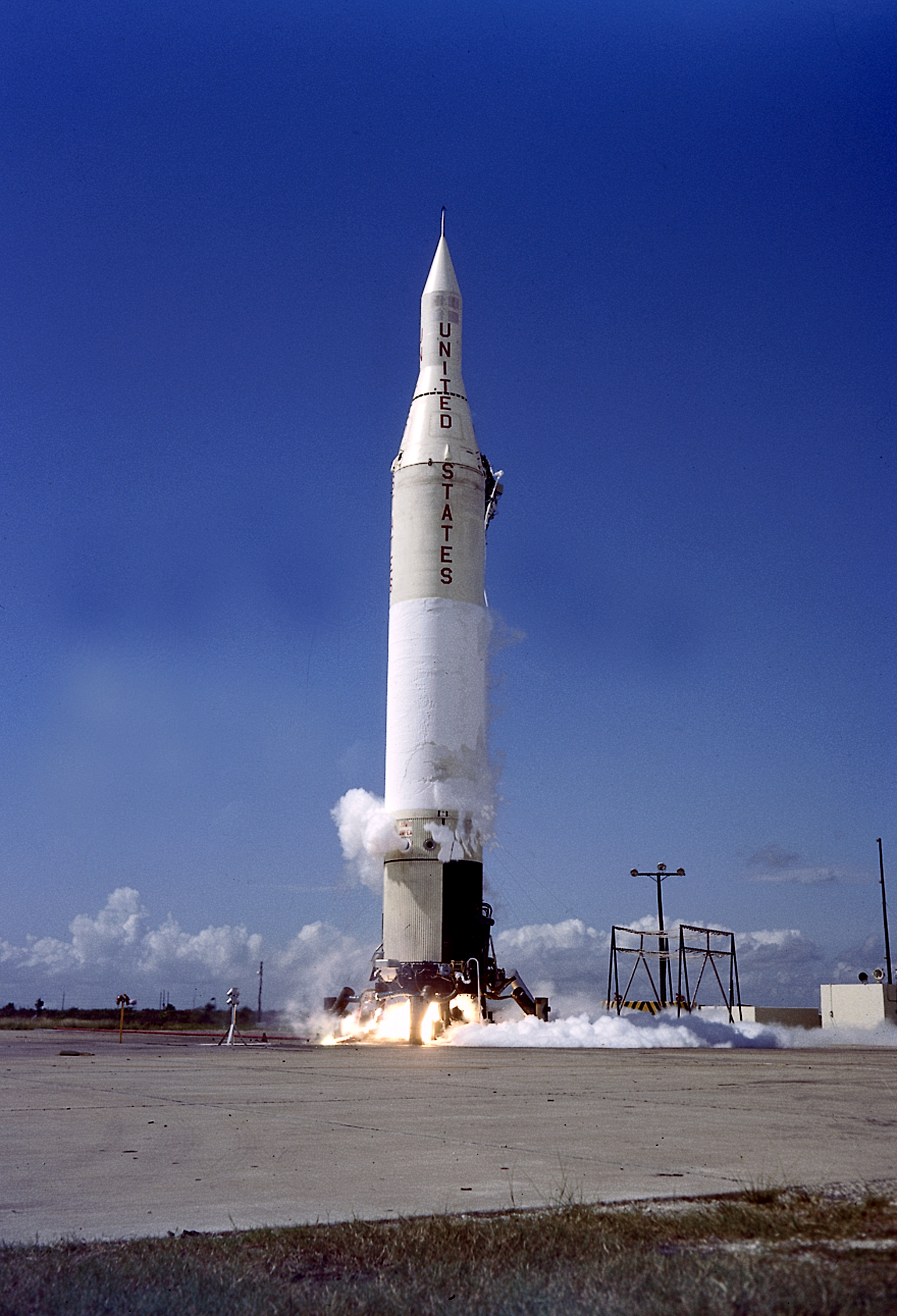 Juno II launch vehicle - Jupiter IRBM variant. NASA Description: The ignition of Juno II (AM-19A). Juno II (AM-19) successfully placed a physics and astronomy satellite, Explorer VII, in orbit on October 13, 1959